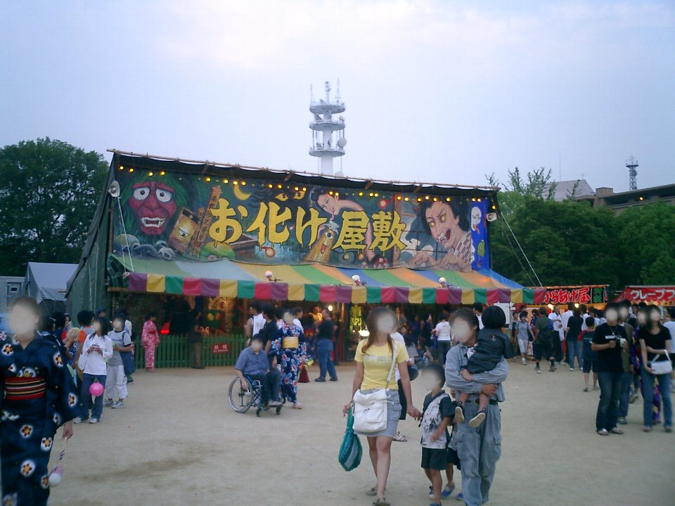 Haunted house,お化け屋敷